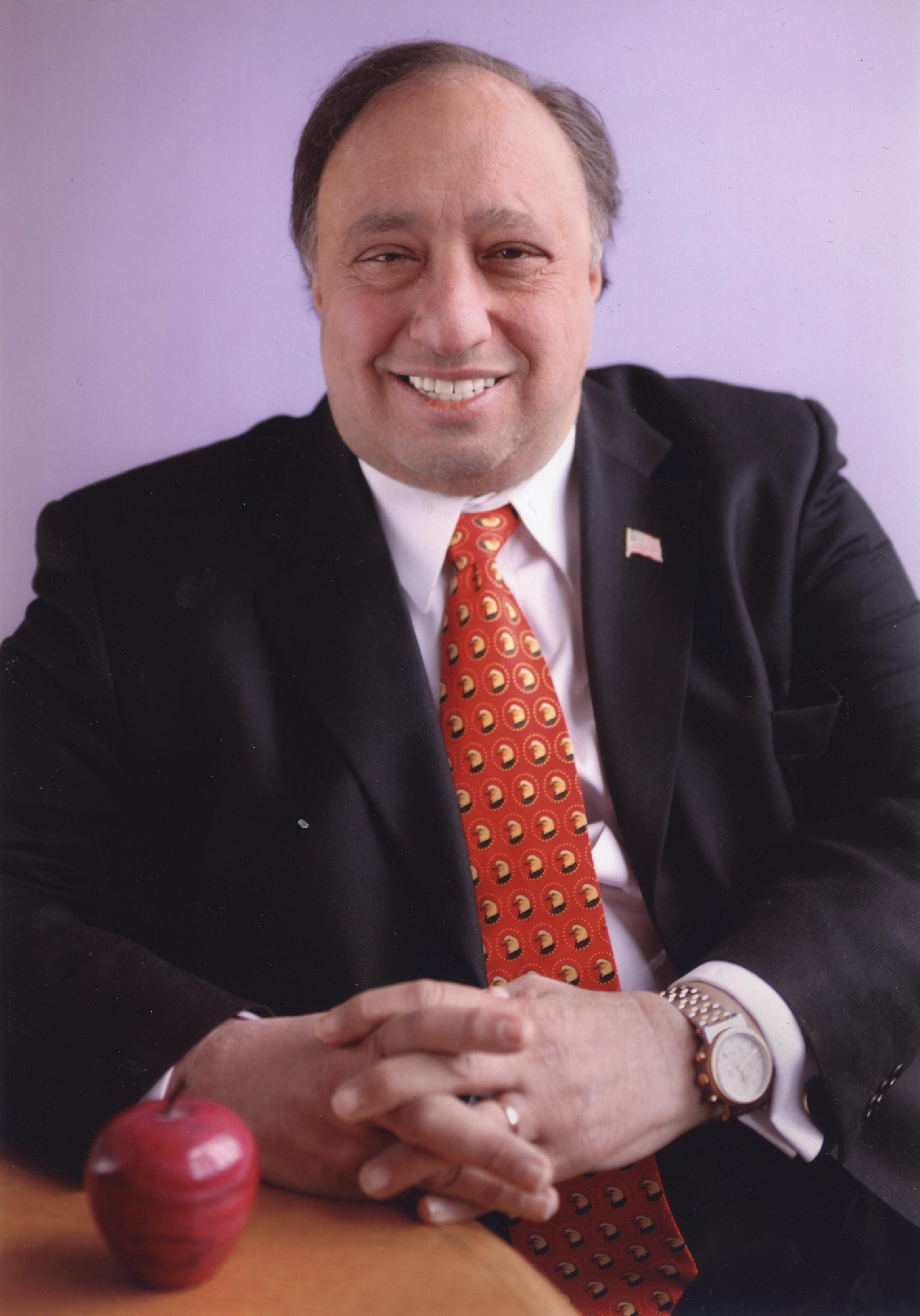 photo of John Catsimatidis, Owner of the Red Apple Group (supermarket chain) and various oil companies, NYC